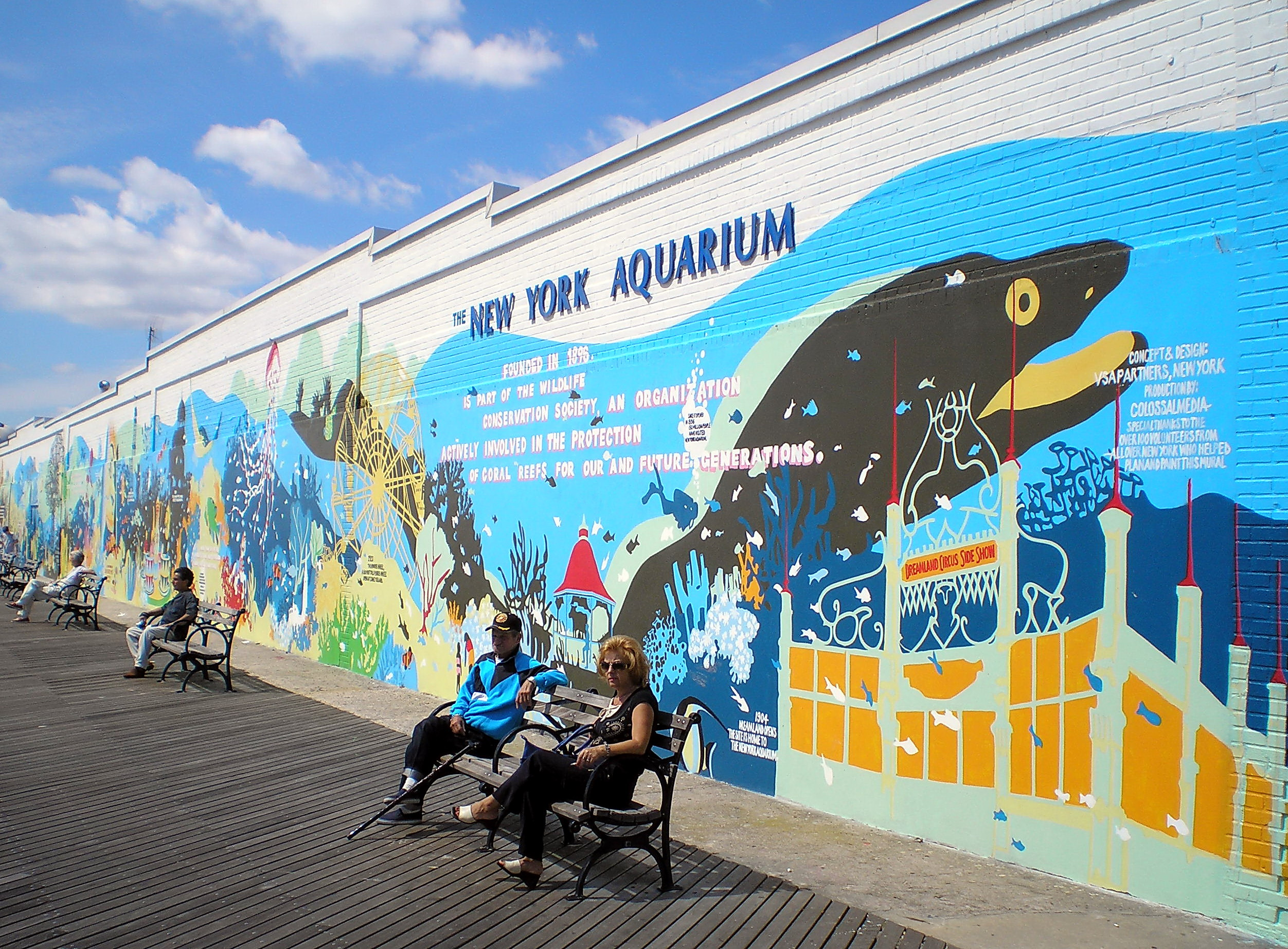 New York Aquarium by David Shankbone, New York City